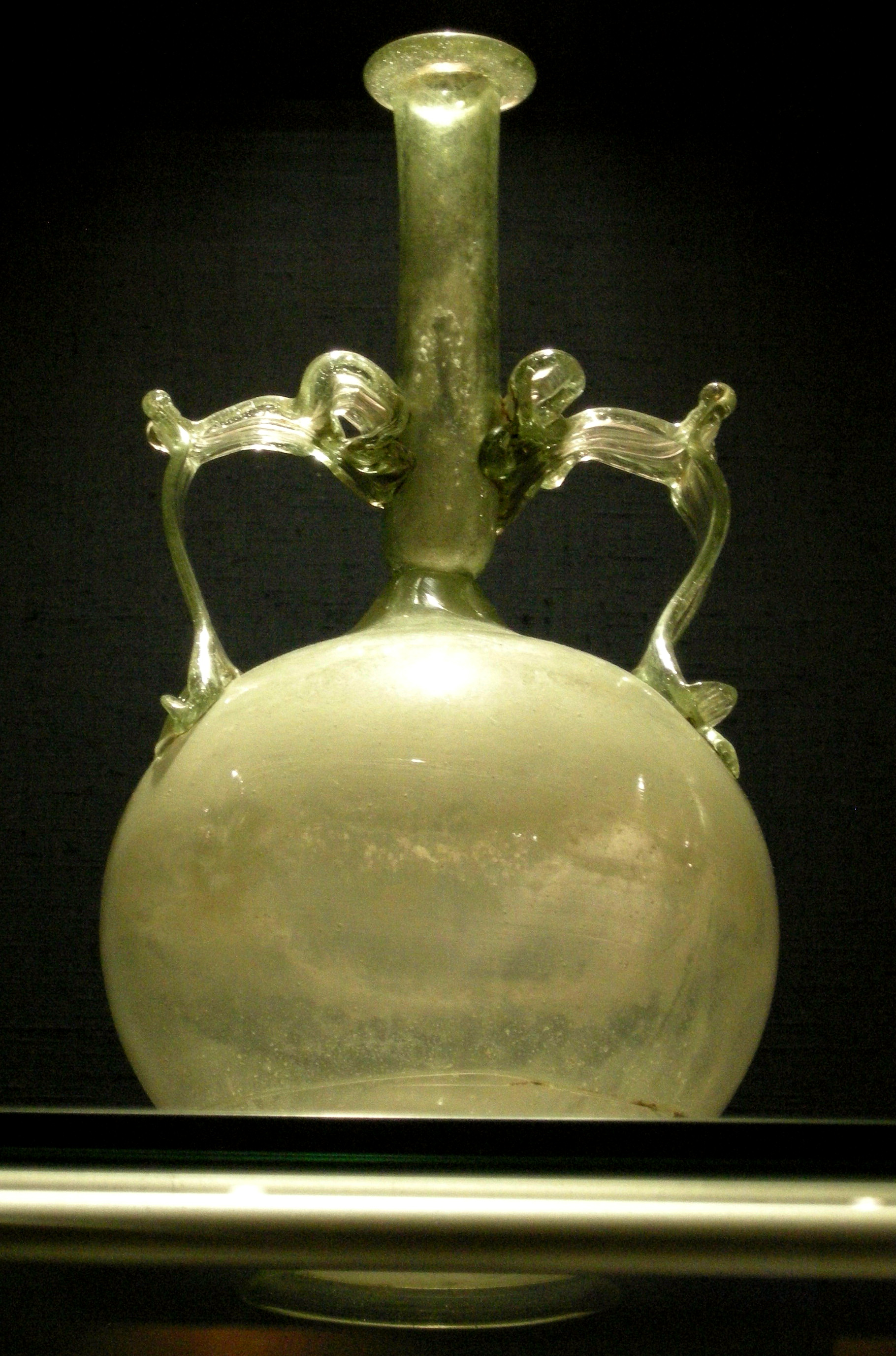 Roman Museum in Butchery Lane, Canterbury, Kent. Roman decorative blown glass bottle from the Longmarket site.